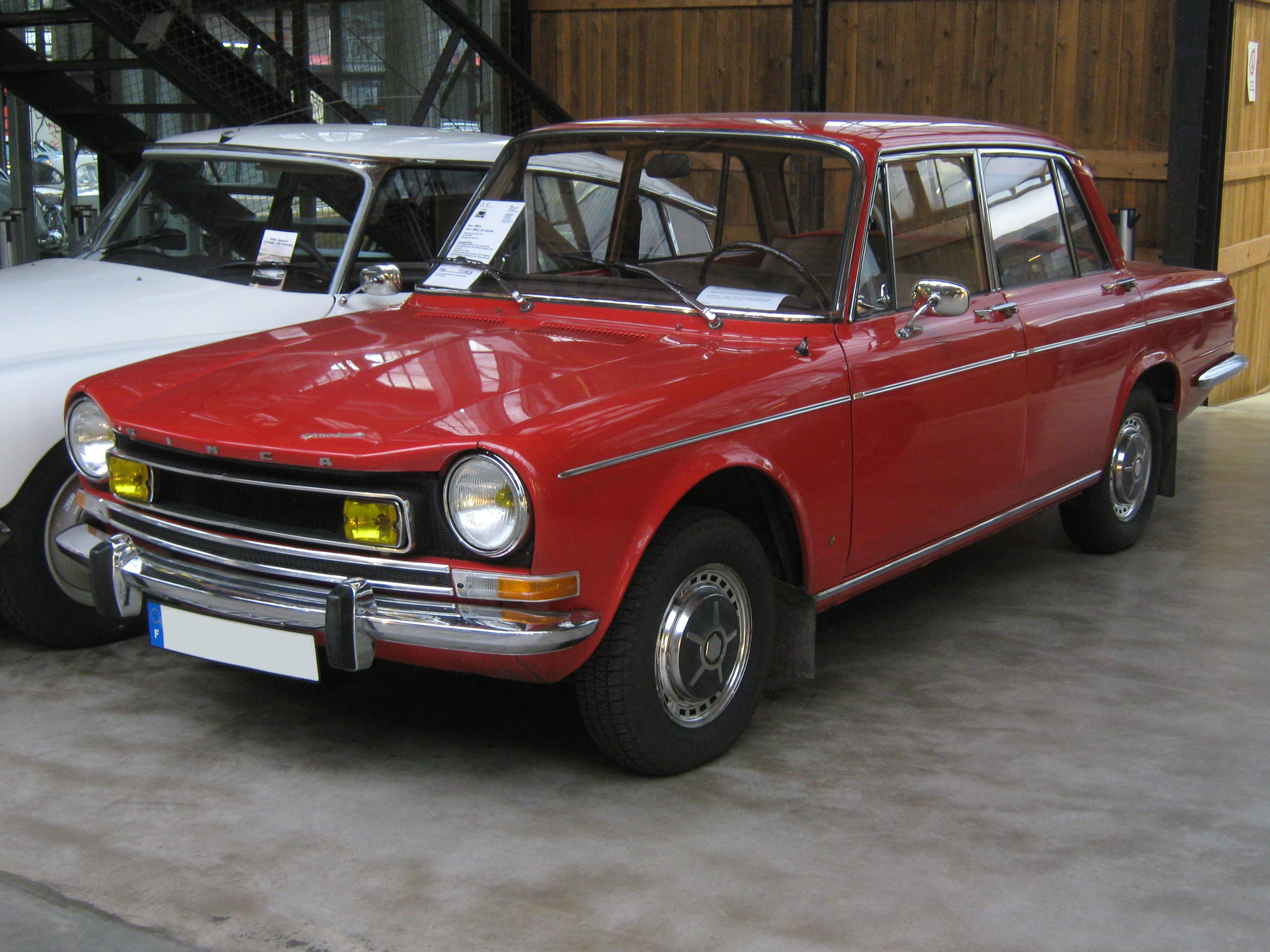 Simca 1301 Special front-view